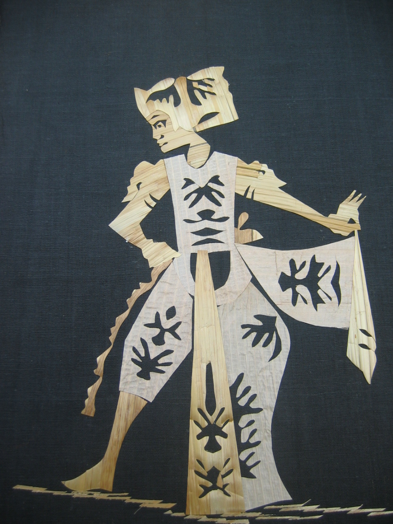 Straw Marquetry picture